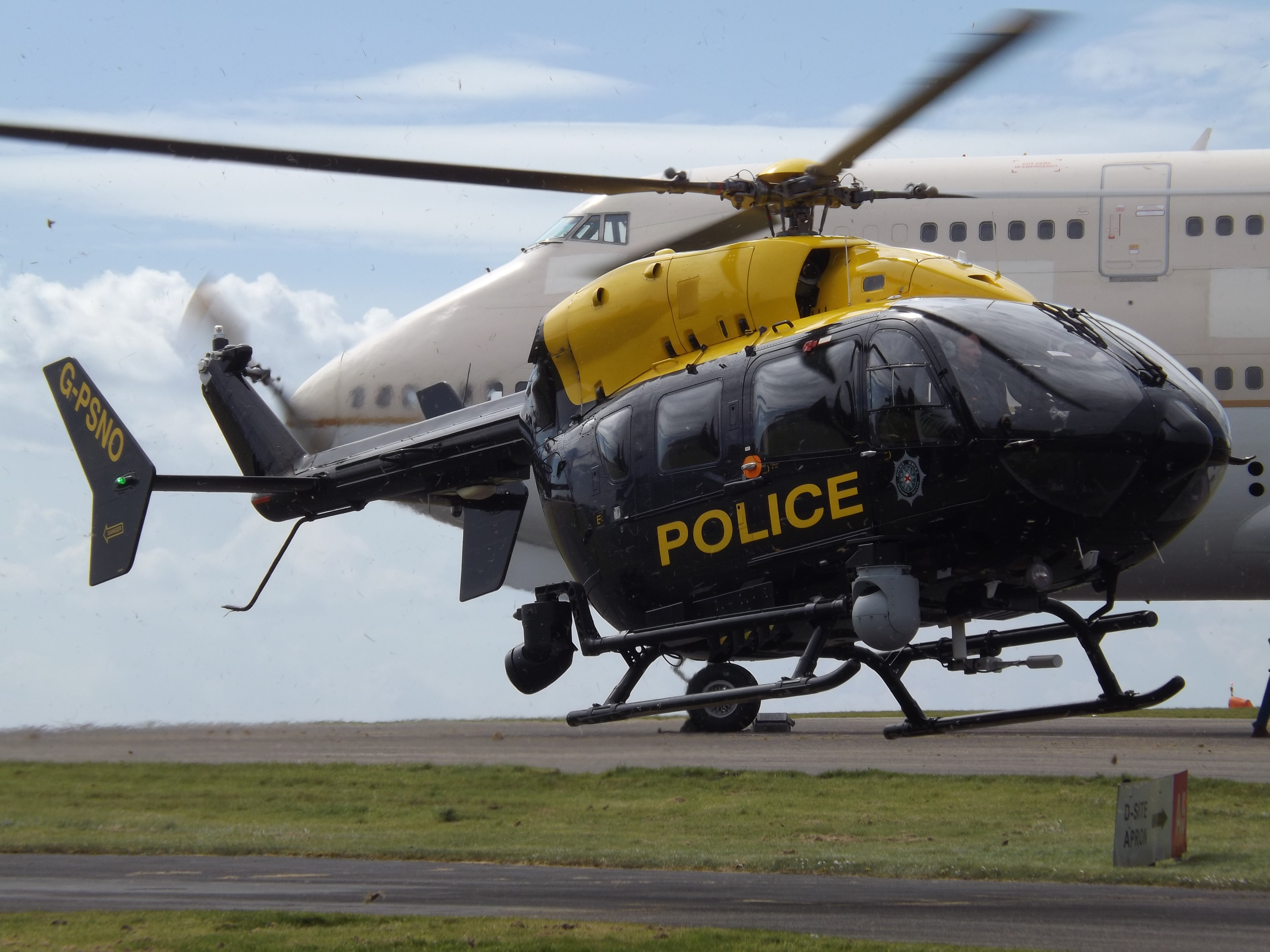 At Kemble Airport With Thanks To Paul Beale.